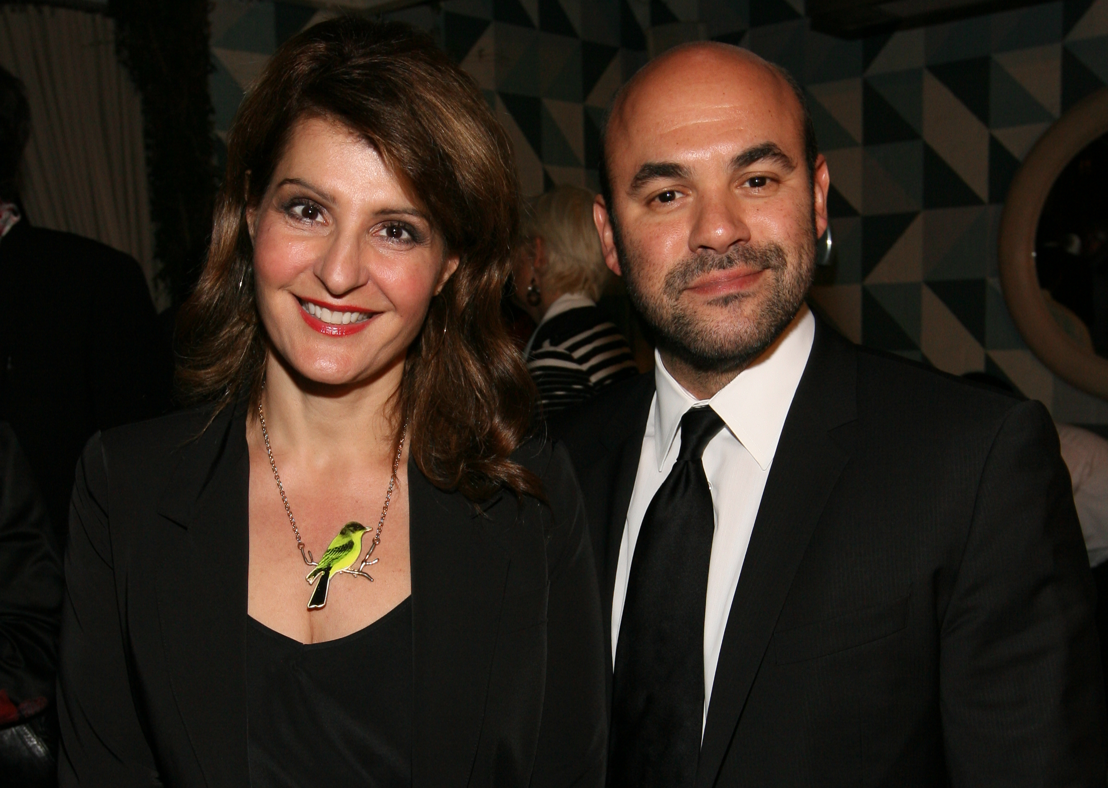 Nia Vardalos, who participated in this year's Telefilm Canada Features Comedy Lab, with Ian Gomez at a Canadian Film Centre & Variety-hosted reception for the Telefilm Canada Features Comedy Lab. To learn more about the Canadian Film Centre, please visit: Photo by Jesse Grant.